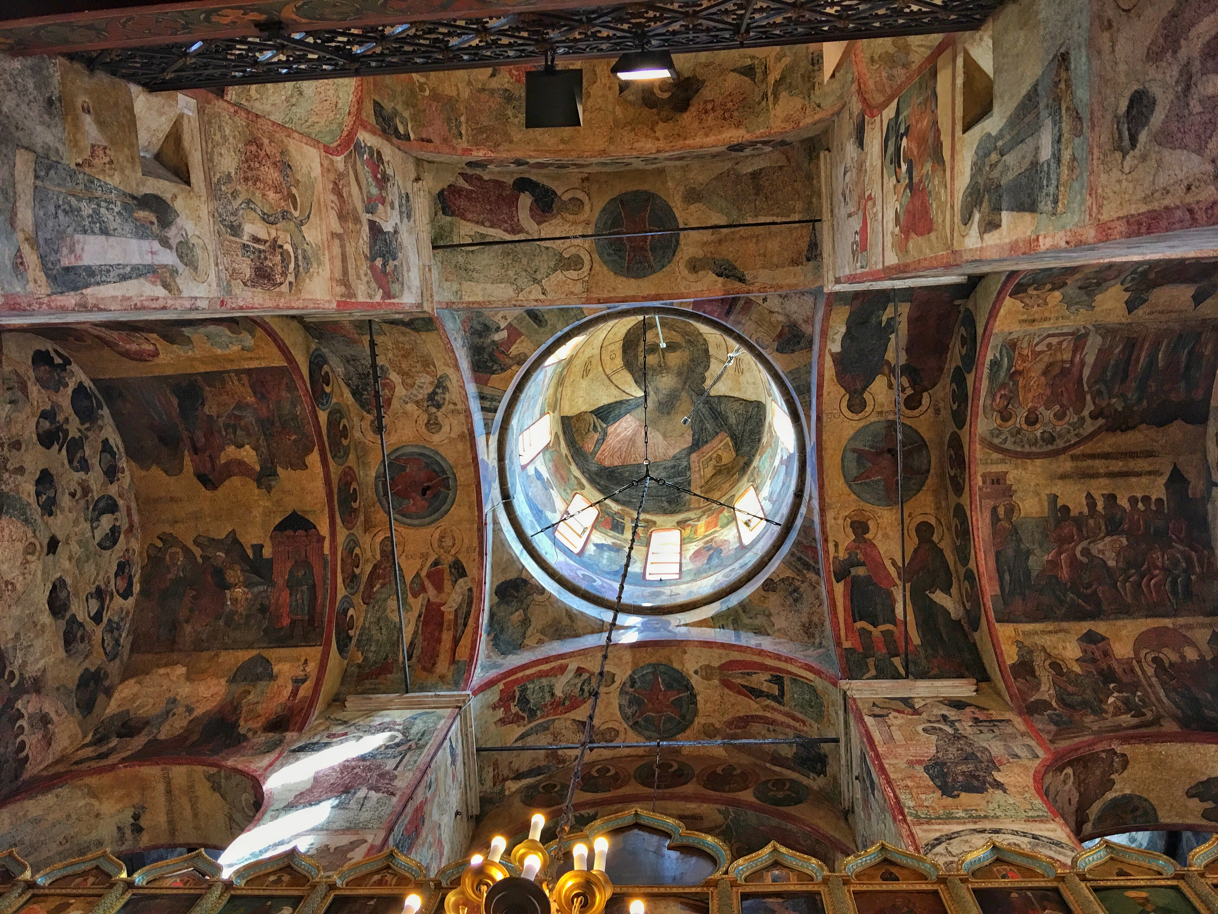 The ceiling of the Cathedral of the Annunciation in the Moscow Kremlin.